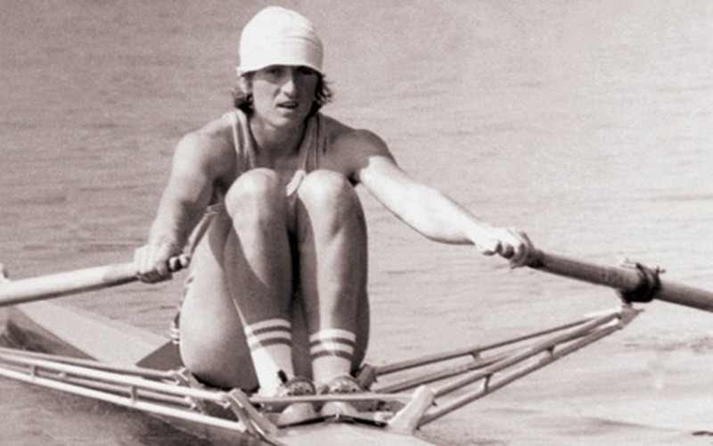 Sanda Toma (Urichianu) at the 1980 Olympics